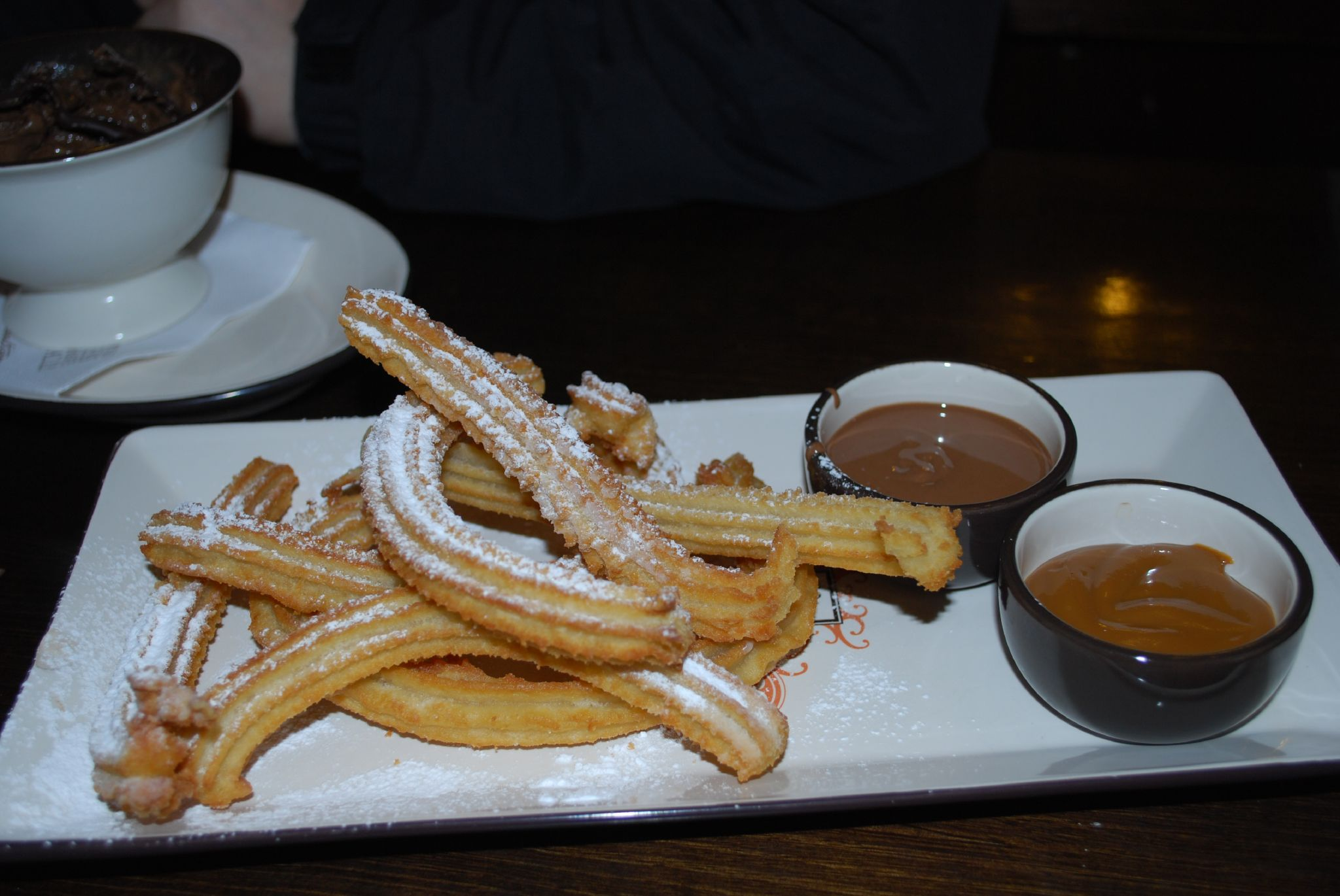 The dark chocolate isn't as smooth as I'd like but the Dulce de Leche was a great caramel! --- Chocolateria San Churro (03) 9529 7559 150 Chapel St Windsor VIC 3181 .au/